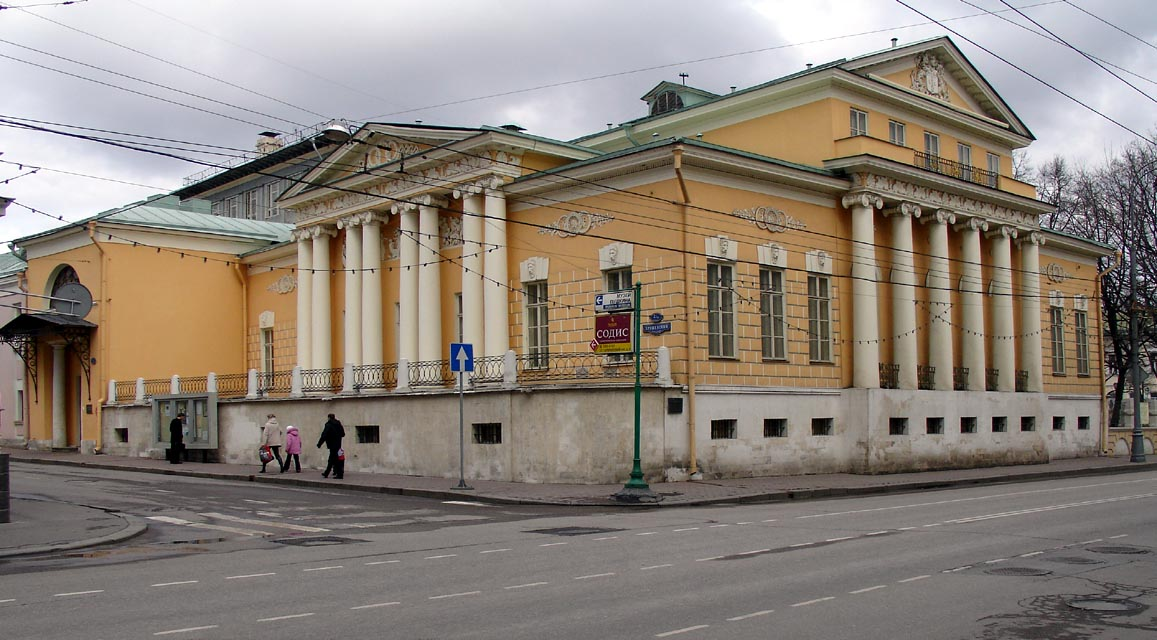 Alexander Pushkin Museum, Moscow, Prechistenka Street, architect: Afanasy Grigiriev, 1820s